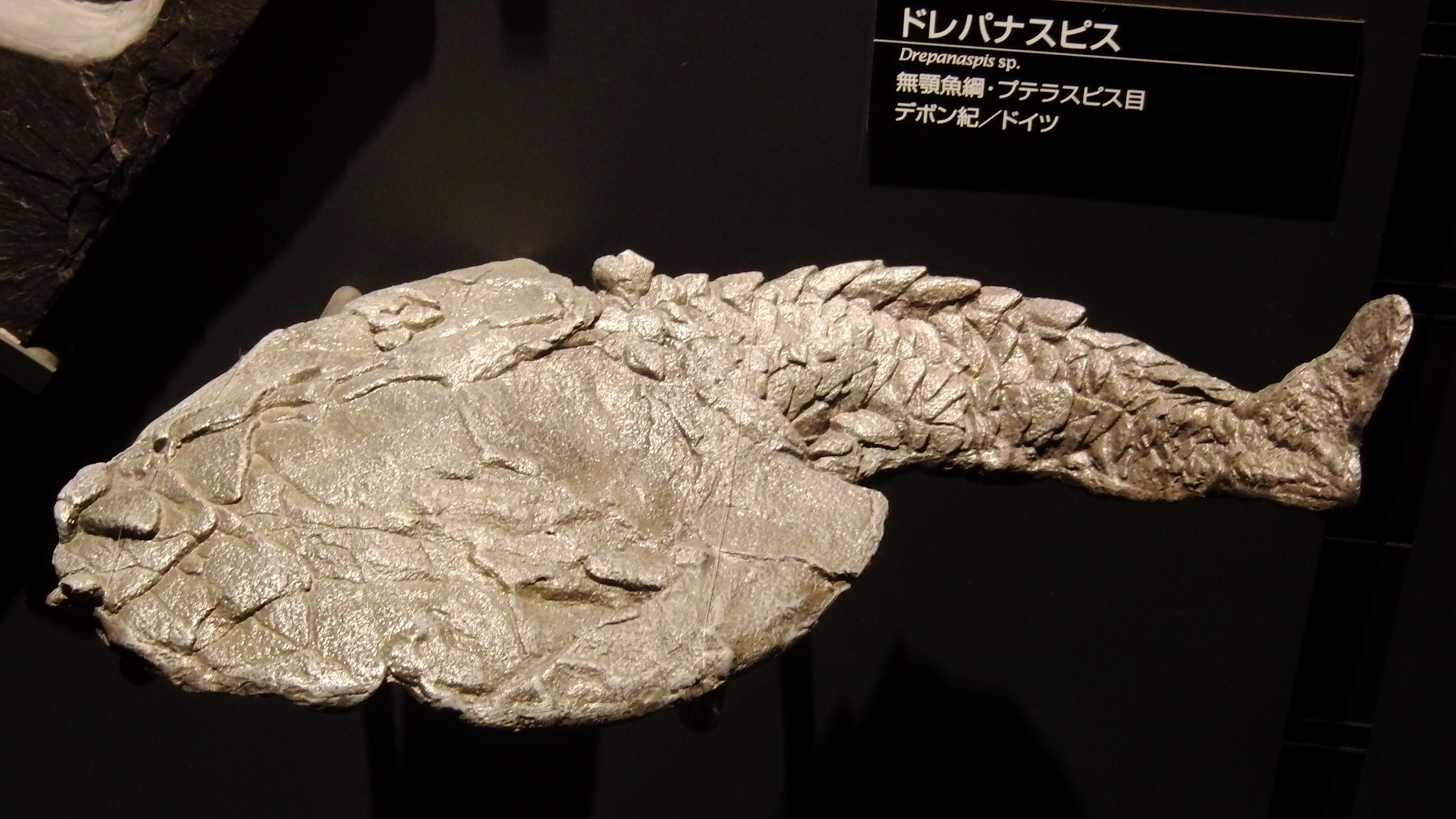 Fossil of Drepanaspis (Drepanaspis sp.). Exhibit in the National Museum of Nature and Science, Tokyo, Japan.